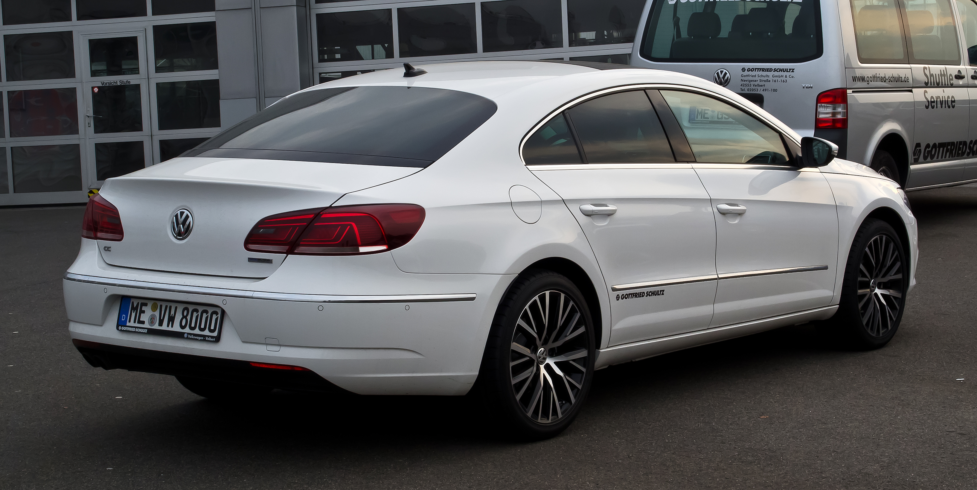 VW CC 2.0 TDI BlueMotion Technology (Facelift)